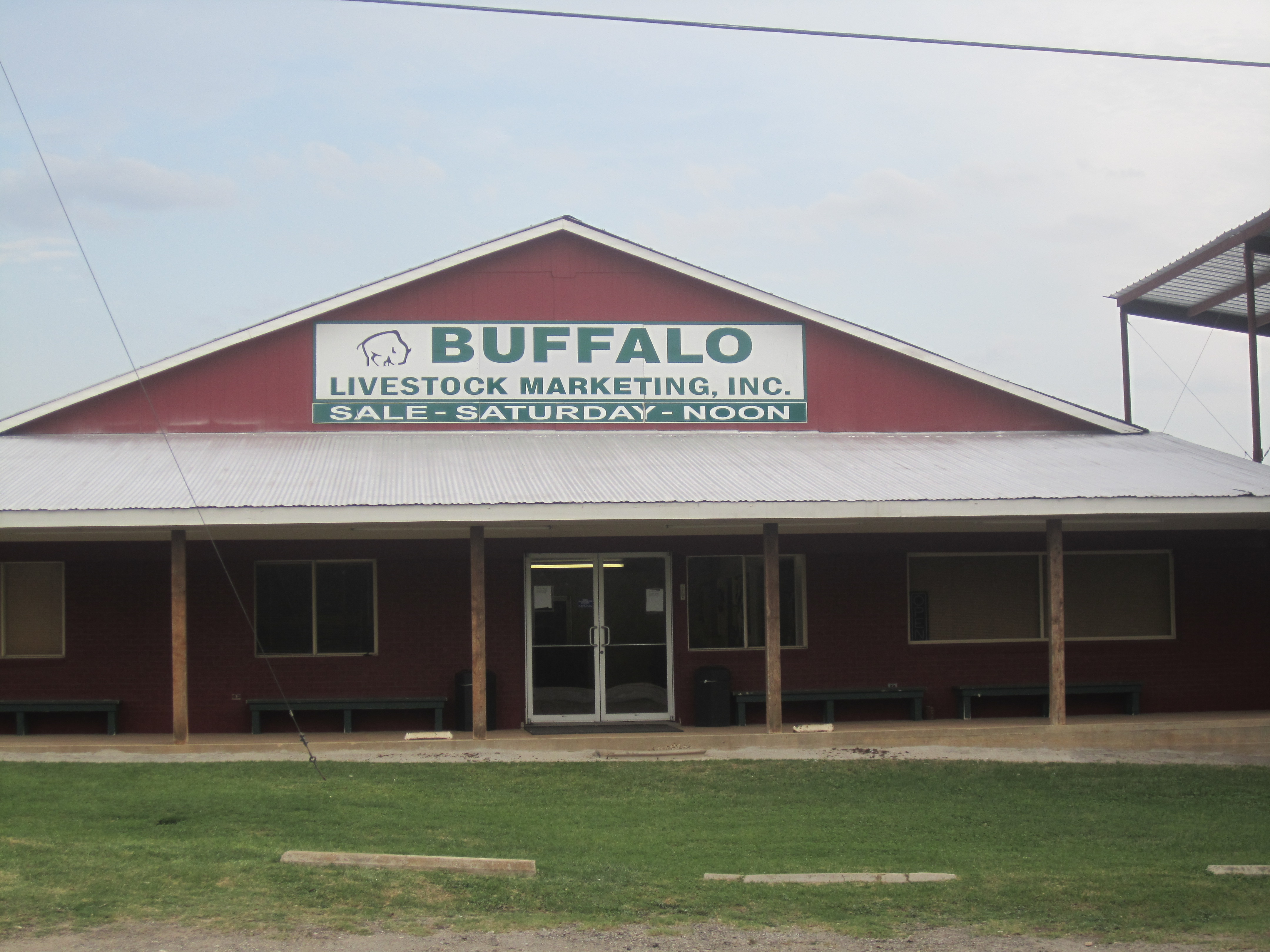 I took photo of Buffalo, TX, livestock auction barn with Canon camera.